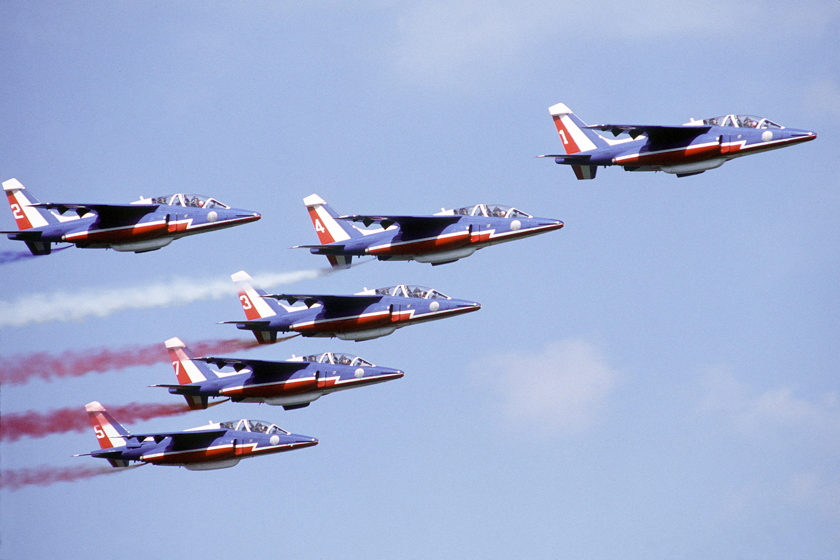 A right side view of six French Alpha Jet aircraft of the Patrouelle de France flight demonstration team flying in formation during Air Fete '88, a NATO aircraft display hosted by the 513th Airborne Command and Control Wing.